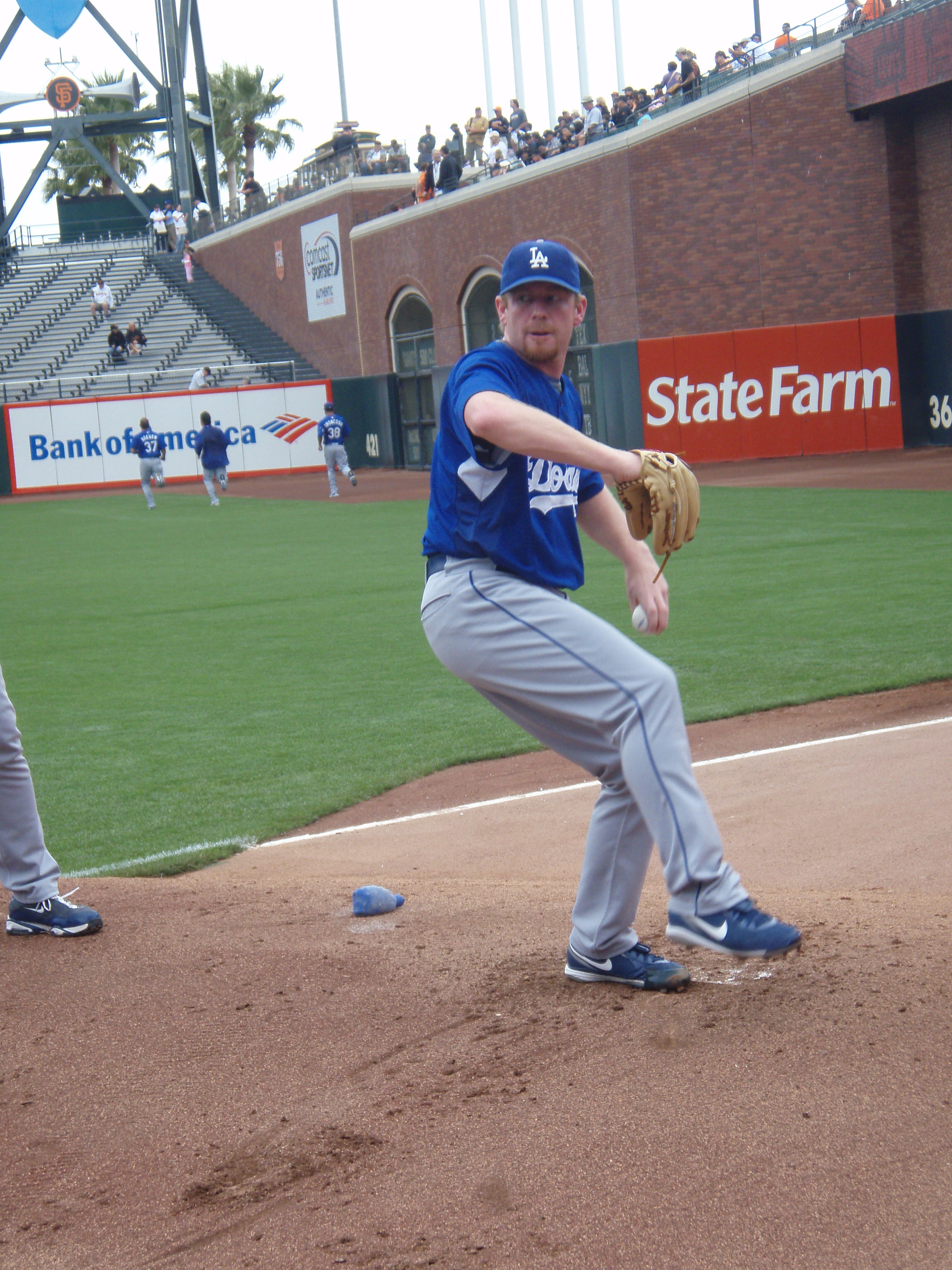 Randy Wolf taking a rehab bullpen session before a game in San Francisco.